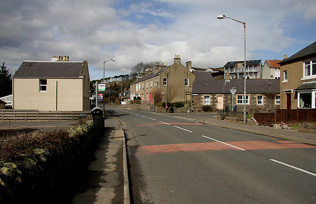 Galashiels Road, Stow The main A7 road through the village near the junction with Craigend Road.